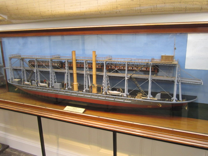 Model of train ferry 'Leonard', Williamson Art Gallery and Museum, Birkenhead, Merseyside, England. Twin screw train ferry built for the national trans-continental railway of Canada, for service between Quebec and Levis. Built by Cammell Laird & Co. of Birkenhead, England.